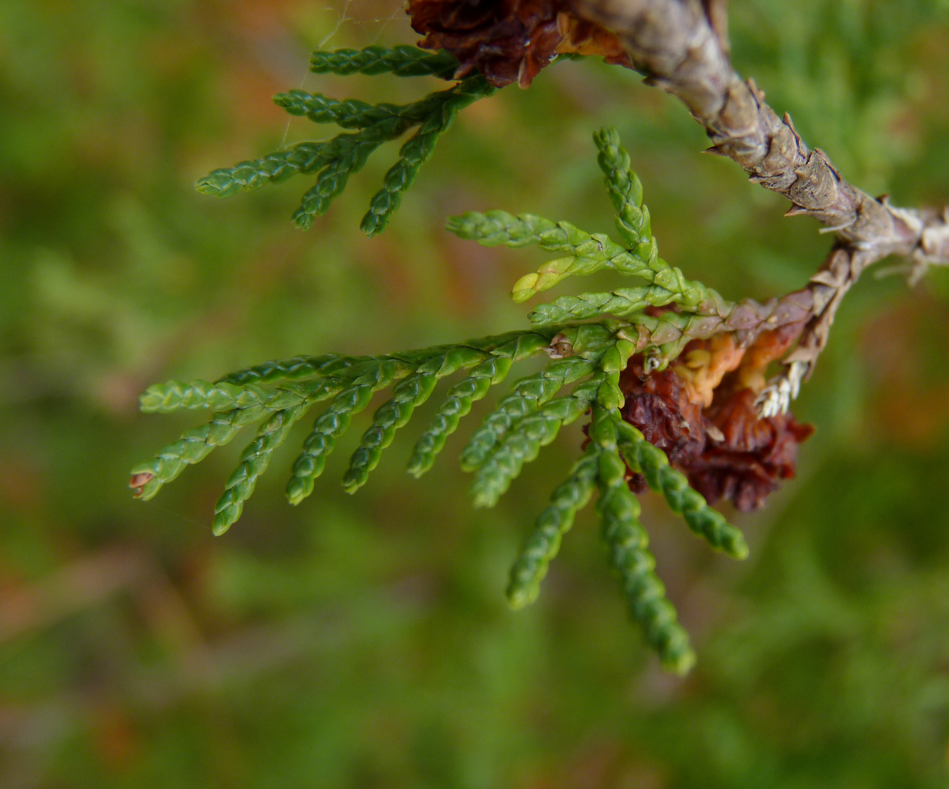 Atlantic White Cypress Chamaecyparis thyoides foliage and cones, Franklin Parker Reserve, Chatsworth, New Jersey.